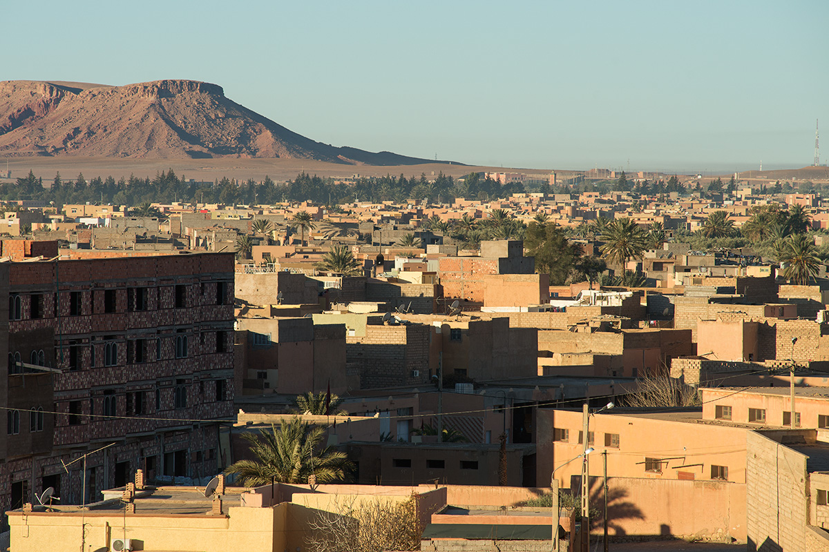 Errachidia overview, Jan 2018